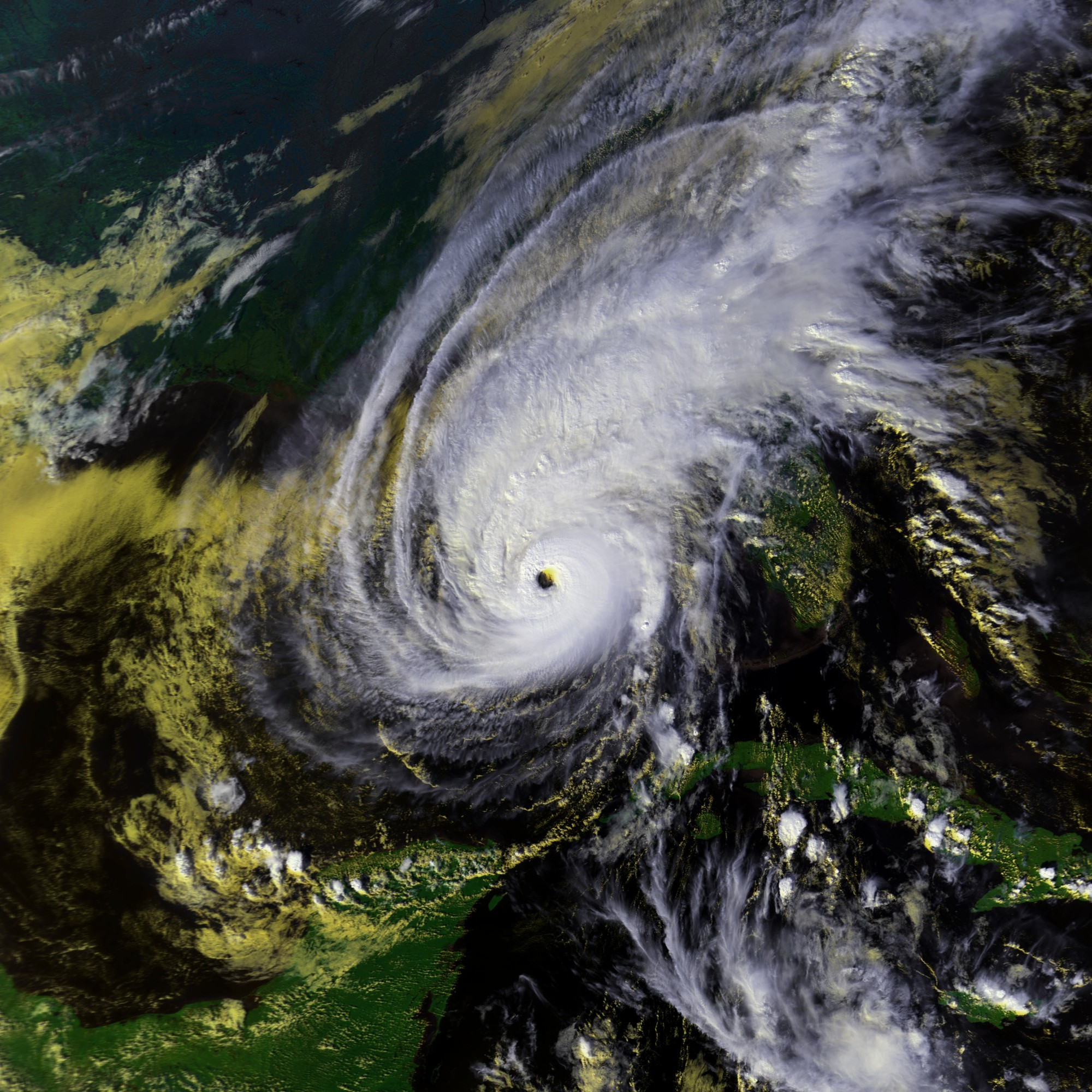 Hurricane Kate from NOAA 9. Inventory ID: NSS.HRPT.NF.D85324.S1950.E2003.B0484444